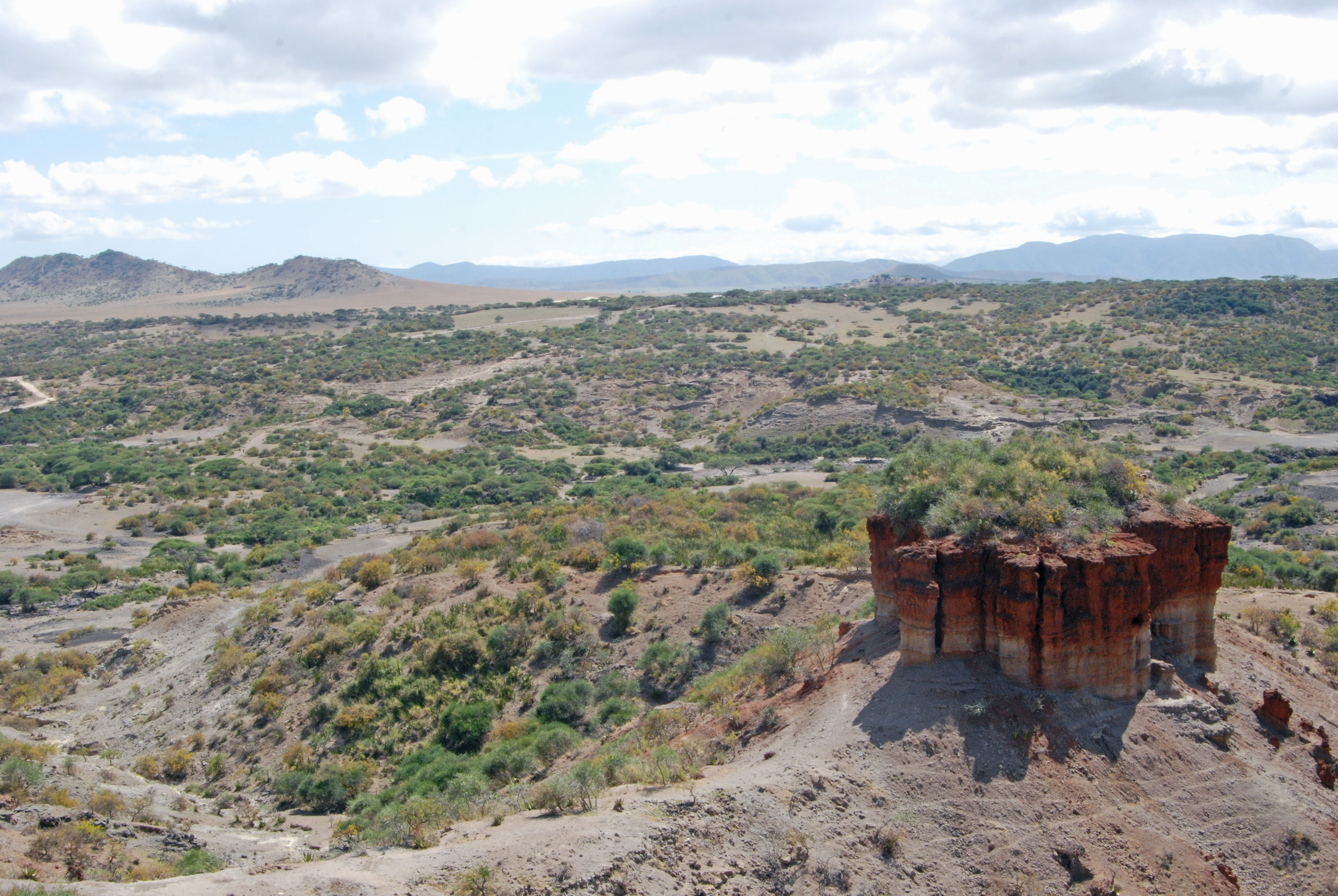 Olduvai Gorge, the archaeological site also known as "The Cradle of Mankind", is a steep-sided ravine in the Great Rift Valley that stretches through eastern Africa. It is in the eastern Serengeti Plains in northern Tanzania. The name is a misspelling of Oldupai Gorge, which was adopted as the official name in 2005. Oldupai is the Maasai word for the wild sisal plant .